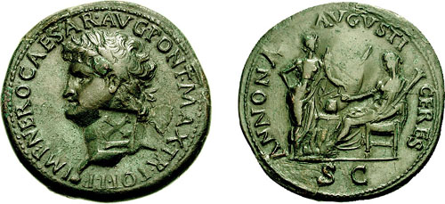 Nero. 54-68 AD. Æ Sestertius (27.02 g, 7h). Lugdunum (Lyon) mint. Struck 66 AD. Laureate head left, globe at point of bust; countermark: X with bar above, all in incuse square On left Annona standing, facing right, holding cornucopiae; on r. Ceres seated facing left, holding grain-ears and torch; modius on garlanded altar between them; ship's stern behind. RIC I 494; BMCRE –; Cohen – for c/m: D.W. MacDowall, "Two Roman Countermarks of A.D. 68," NC 1960, 5; BN pl. B, 7 n.b. This rare countermark of the Legio X Gemina is found solely on Aes coinage of Nero, usually from the mint of Lugdunum. MacDowall's analysis revealed that this countermark was applied during the Civil War in 68 AD while the legion was stationed at Carnuntum.